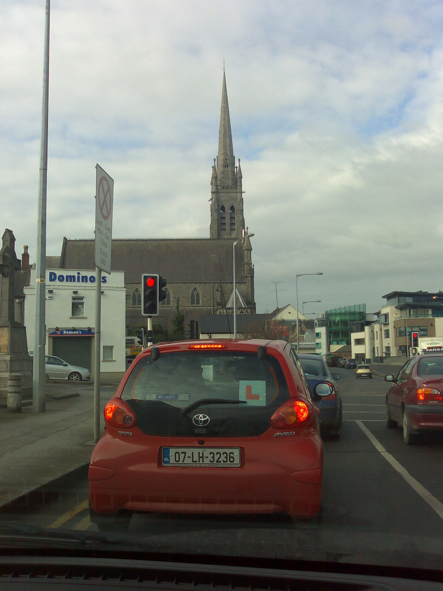 Street in Drogheda, Ireland